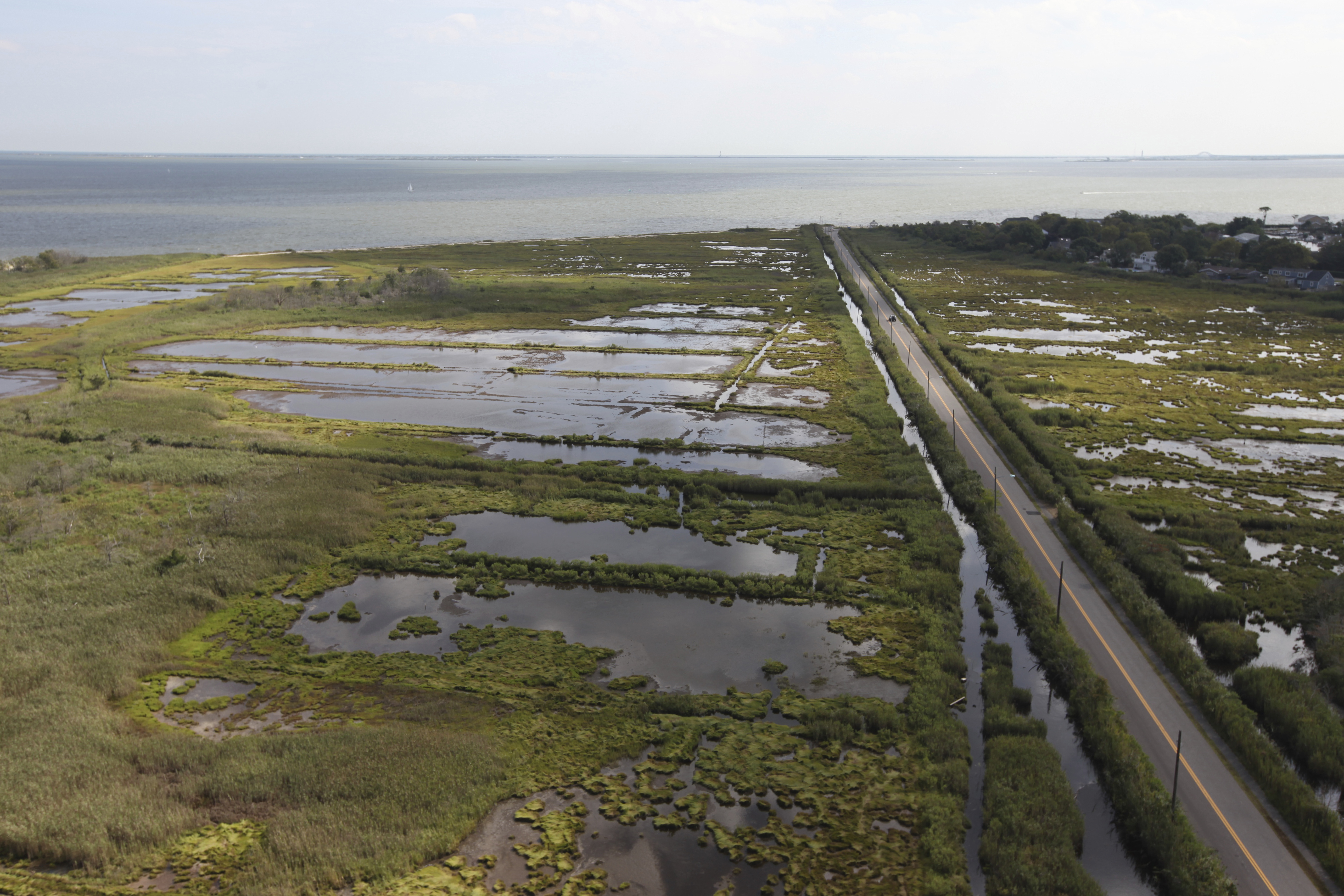 Photo credit: USFWS Day 1 of Hurricane Sandy Recovery Flyovers. Long Island National Wildlife Refuge, New York. SeatuckNationalWildlifeRefugeHurricaneSandy